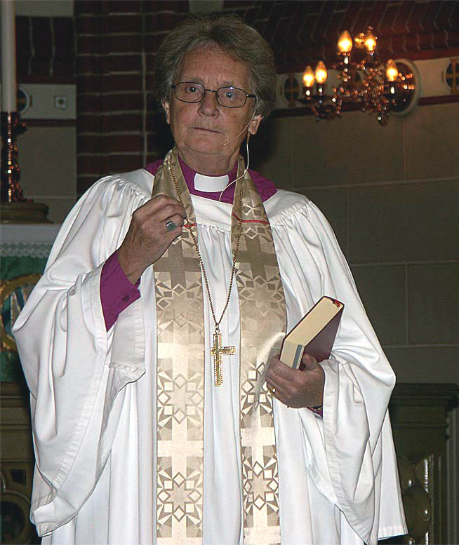 Bishop Christina Odenberg, diocese of Lund of the Church of Sweden. Picture taken in the Church of Eslöv (Eslövs kyrka).